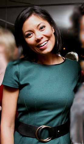 Alex Wagner